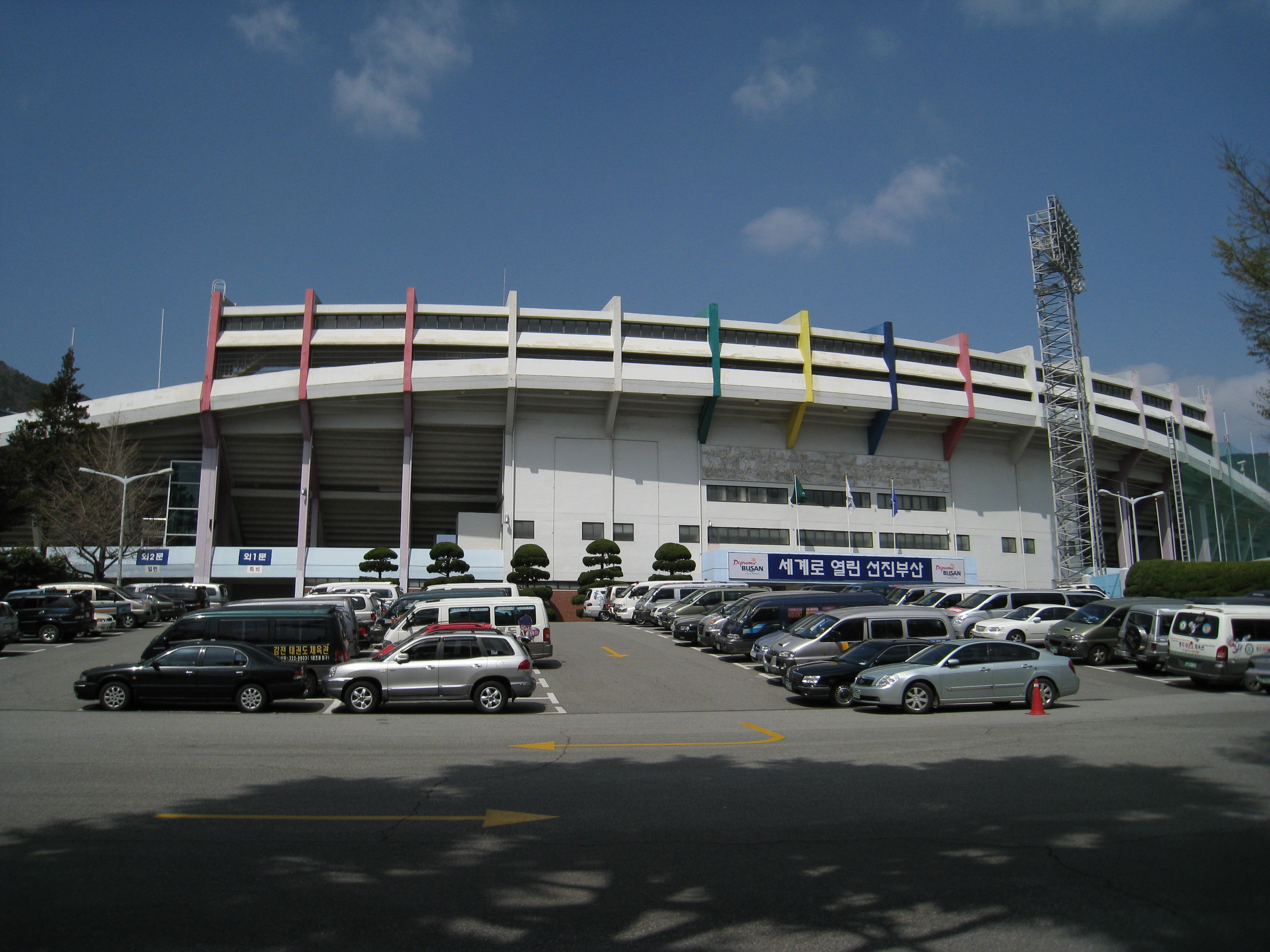 Gudeok Main Stadium.busan,South Korea.